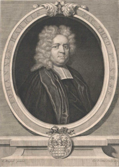 Portrait of John Harris